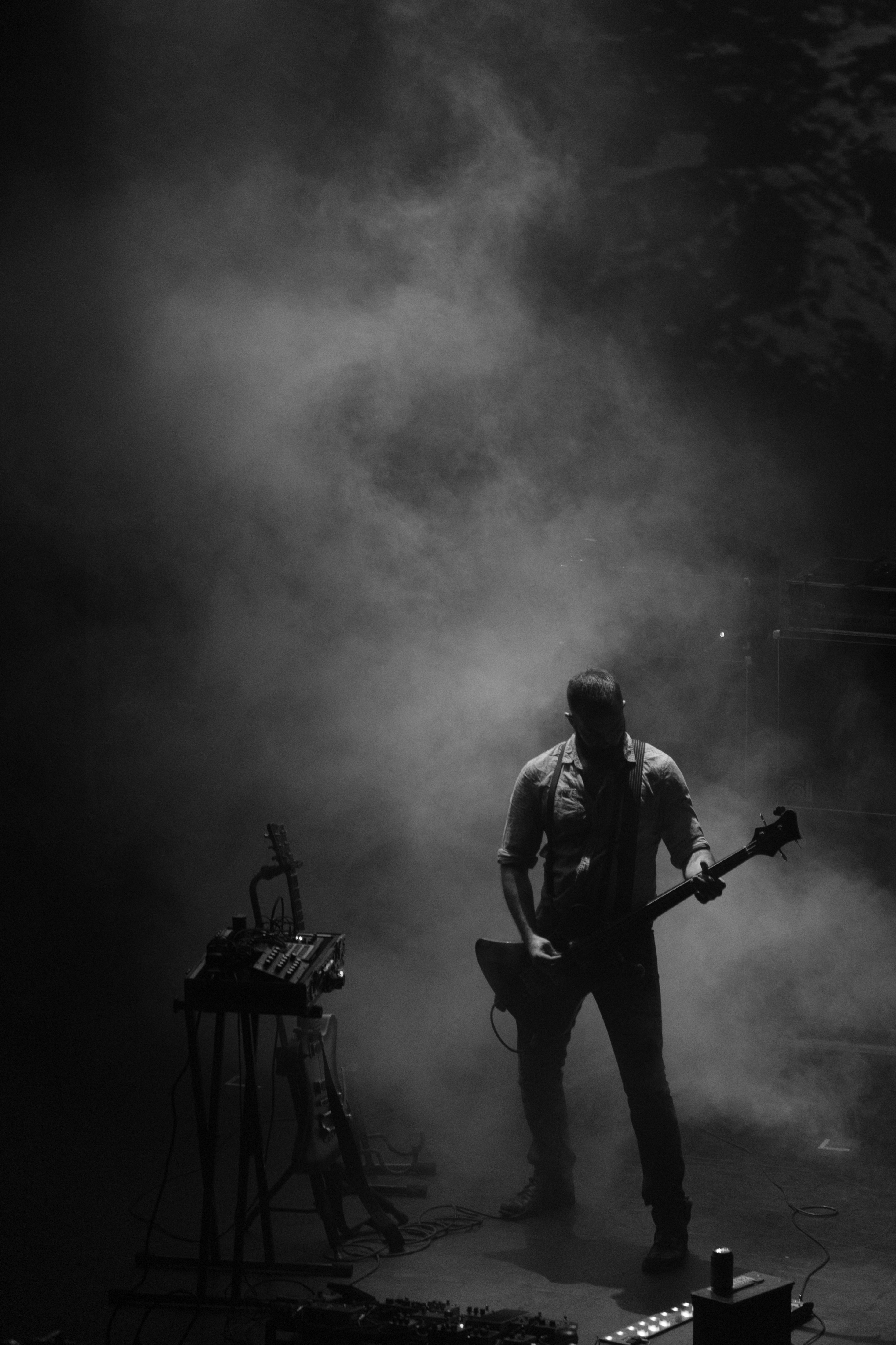 Russian Circles performing at Roadburn Festival, april 2015